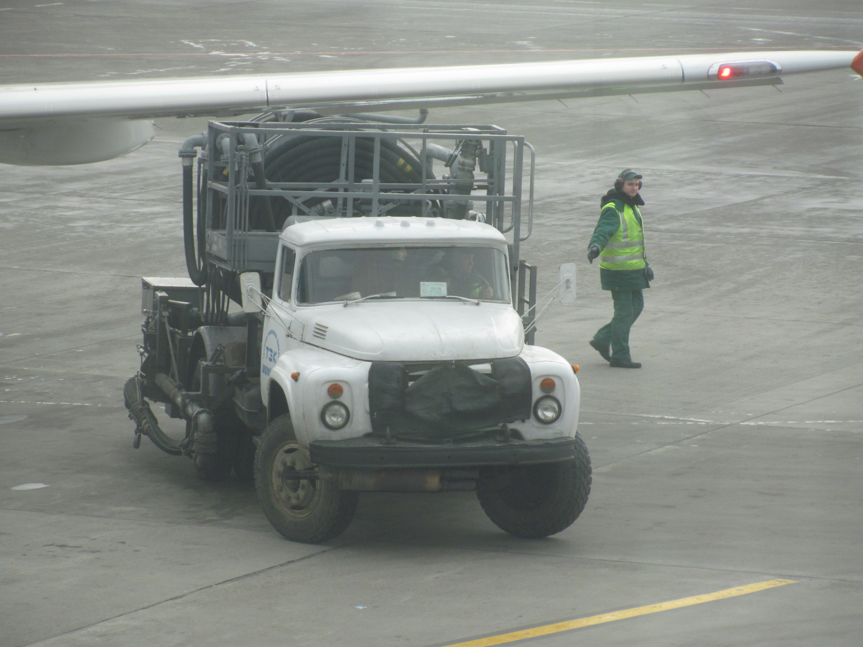 ZiL-130 Moscow airport